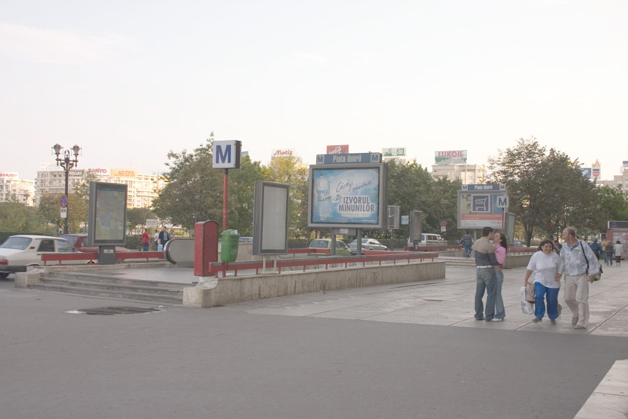 Metro Bucharest, station Piata Unirii (M1 & M2)